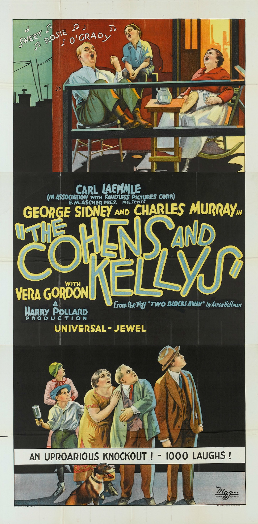 Poster for the 1926 film The Cohens and Kelllys